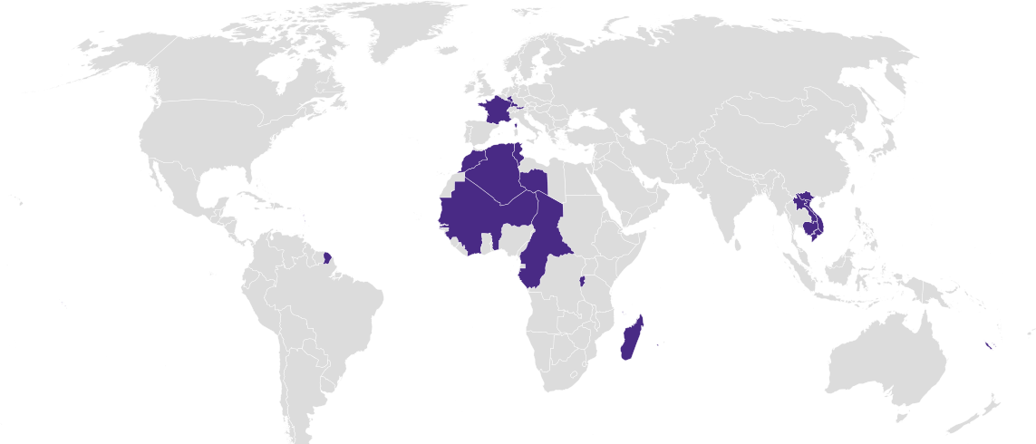 French colonies in 1953, created with geodata from Thenmap, and thenmap.js